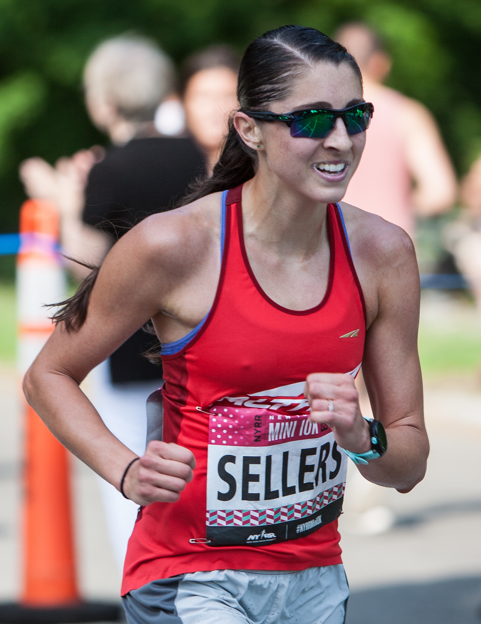 Elite women – NYRR Mini 10K 2018